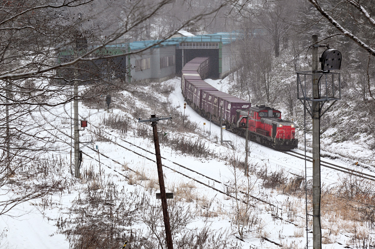 JR Hokkaido Sekihoku Mainline Jyomon Signal Base ( Ikutahara Stn. - Kanehana Stn. ).